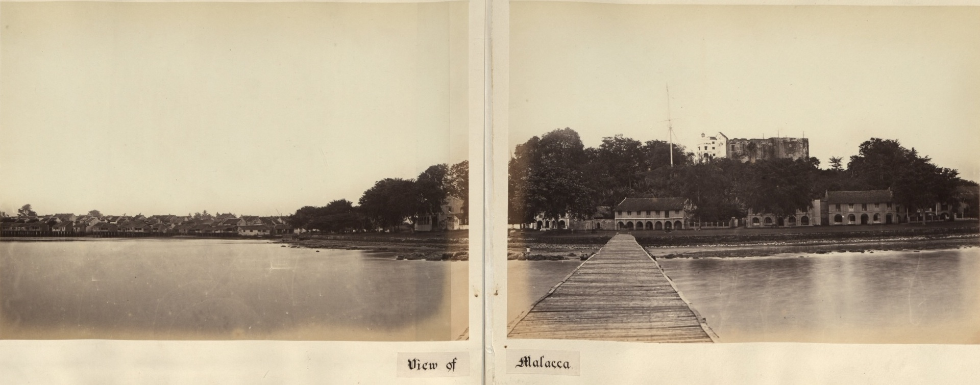 Description: View of Malacca. Location: Malacca, Malaya Date: 1860-1900 Our Catalogue Reference: Part of CO 1069/484. This image is part of the Colonial Office photographic collection held at The National Archives. Feel free to share it within the spirit of the Commons. Please use the comments section below the pictures to share any information you have about the people, places or events shown. We have attempted to provide place information for the images automatically but our software may not have found the correct location. For high quality reproductions of any item from our collection please contact our image library